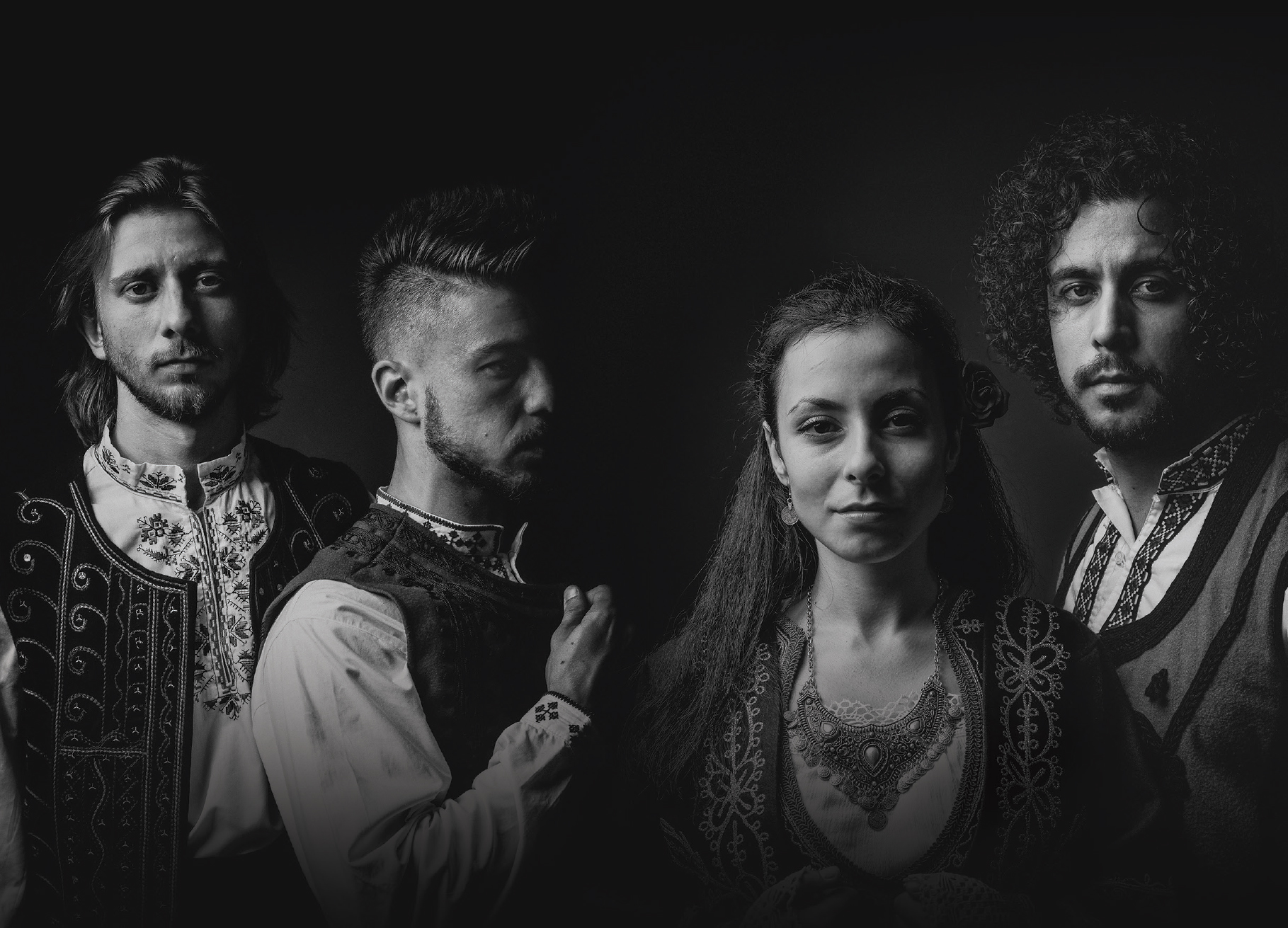 This photo is from the new album of Bulgarian ethno-jazz group Outhentic - "Transparent". "Transparent” is a reference to purity, truth and transparency contained in all the compositions included in it. The album inweaves the emotions of each of the participants, reflecting sincerity, spirituality and humanity in a truly remarkable way, incorporating the authentic sound of a live performance.